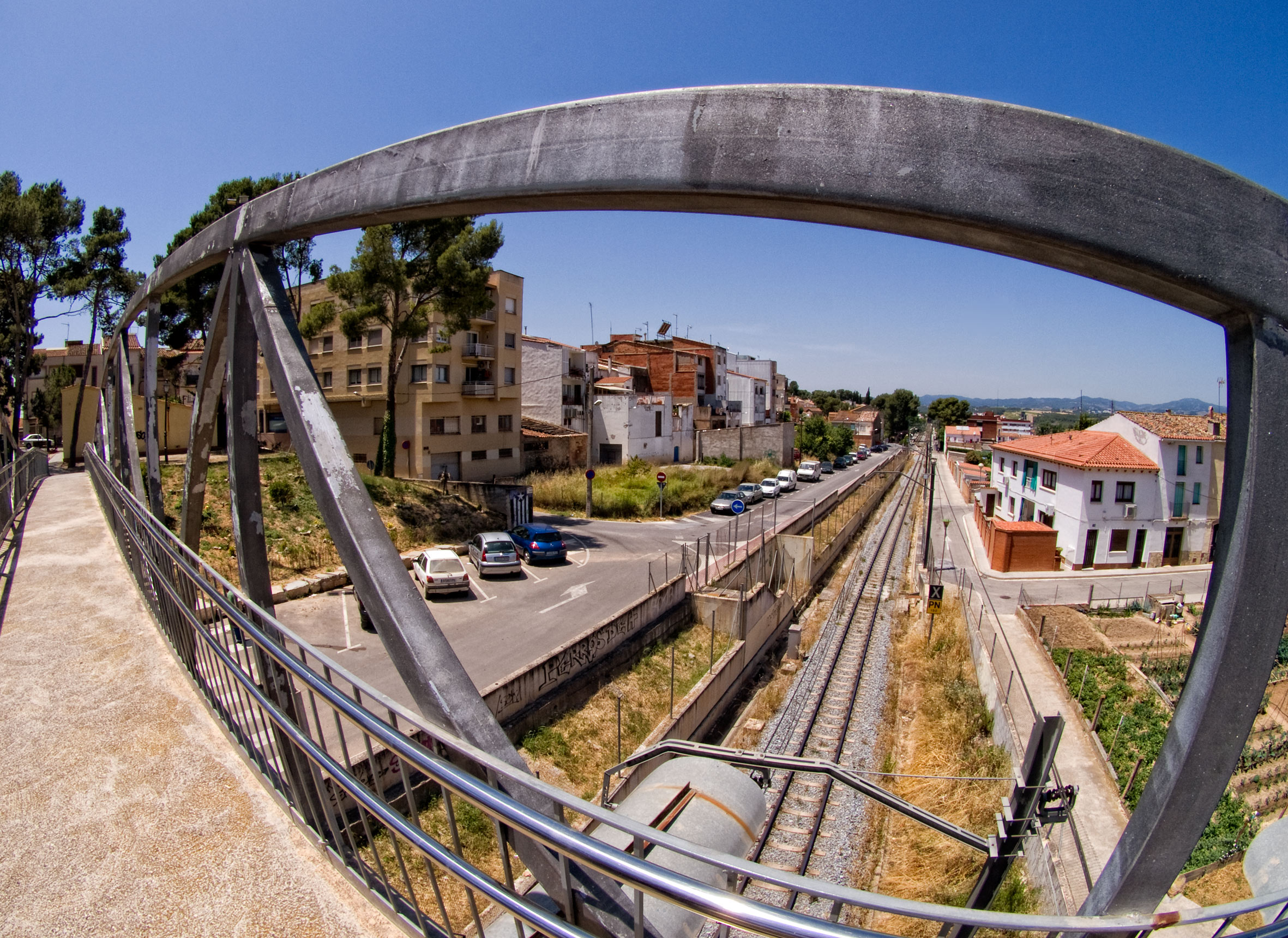 railway avenue of Masquefa (Catalonia, Spain)